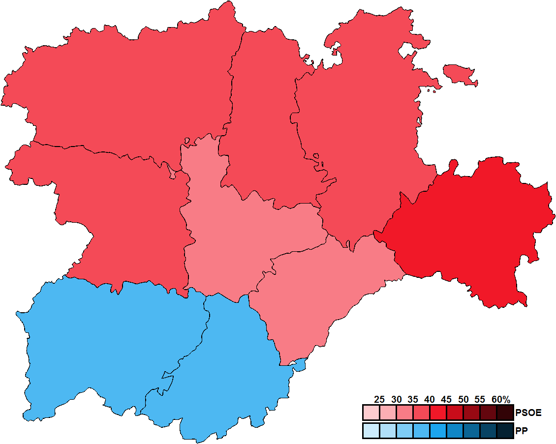 Provincial results for the 2019 Castilian-Leonese regional election.